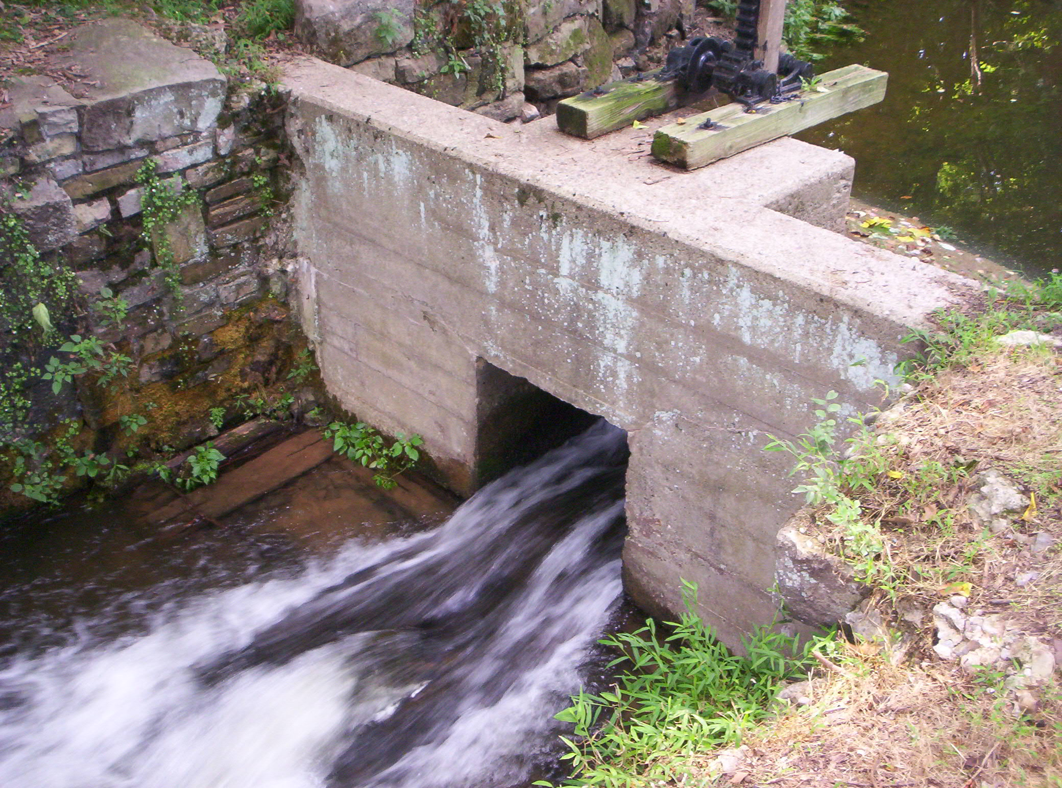 A lock on the Delaware Canal in Pennsylvania